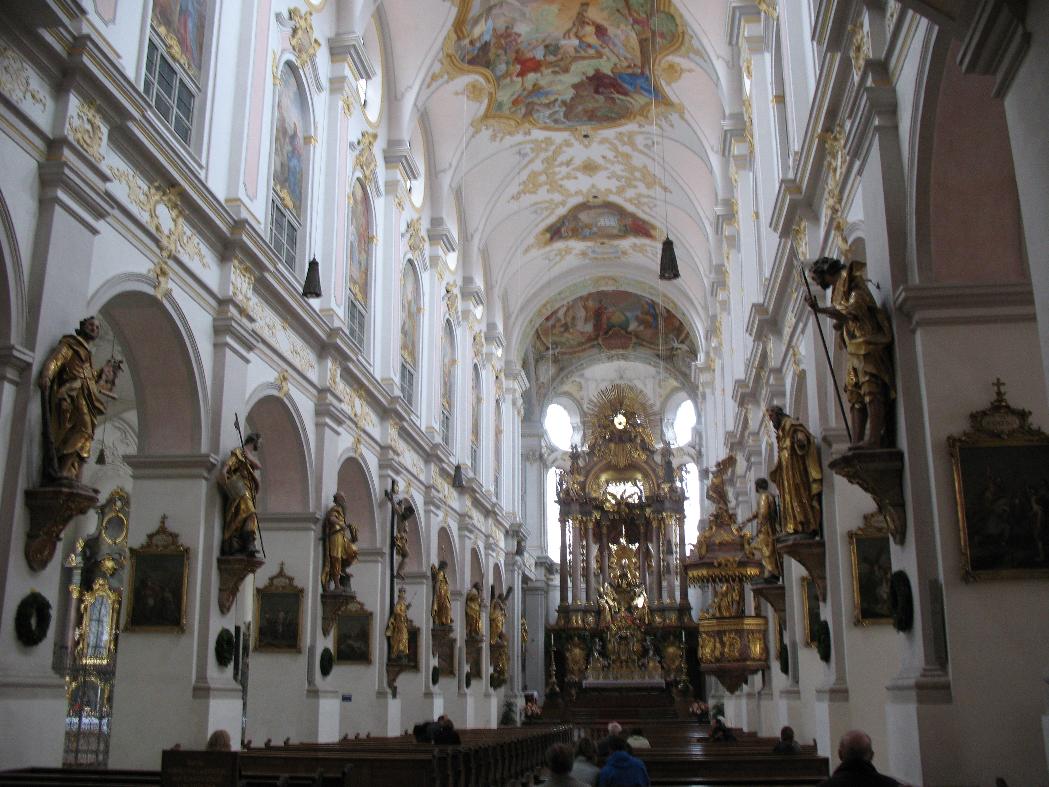 St. Peter's Church, Munich, Germany